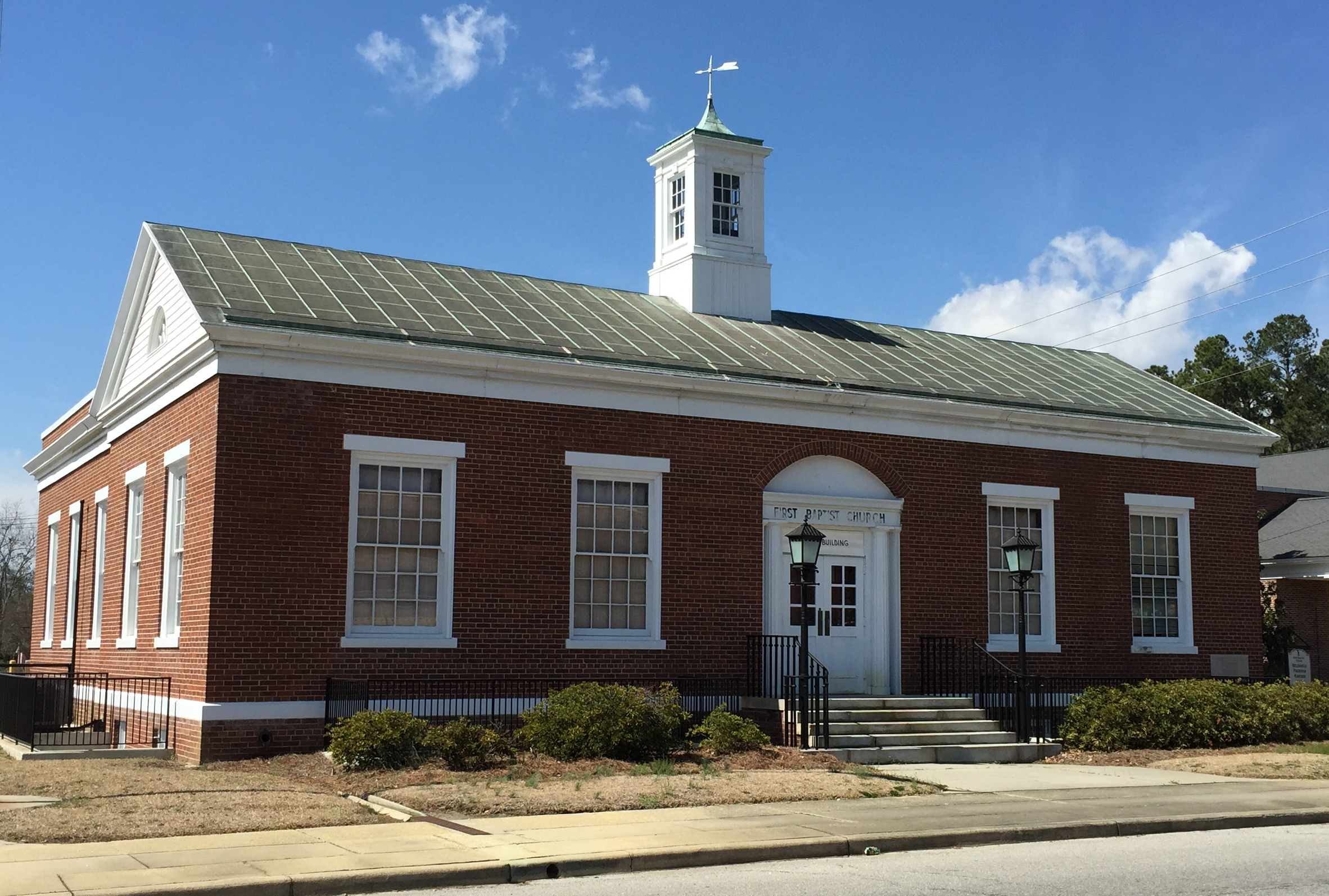 This old post office at the northwest corner of James and N. Main Streets in Mullins, South Carolina, is used by the neighboring Baptist church (as of 2015).